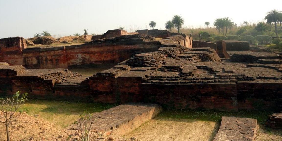 Ruins of the temple in Kashipur